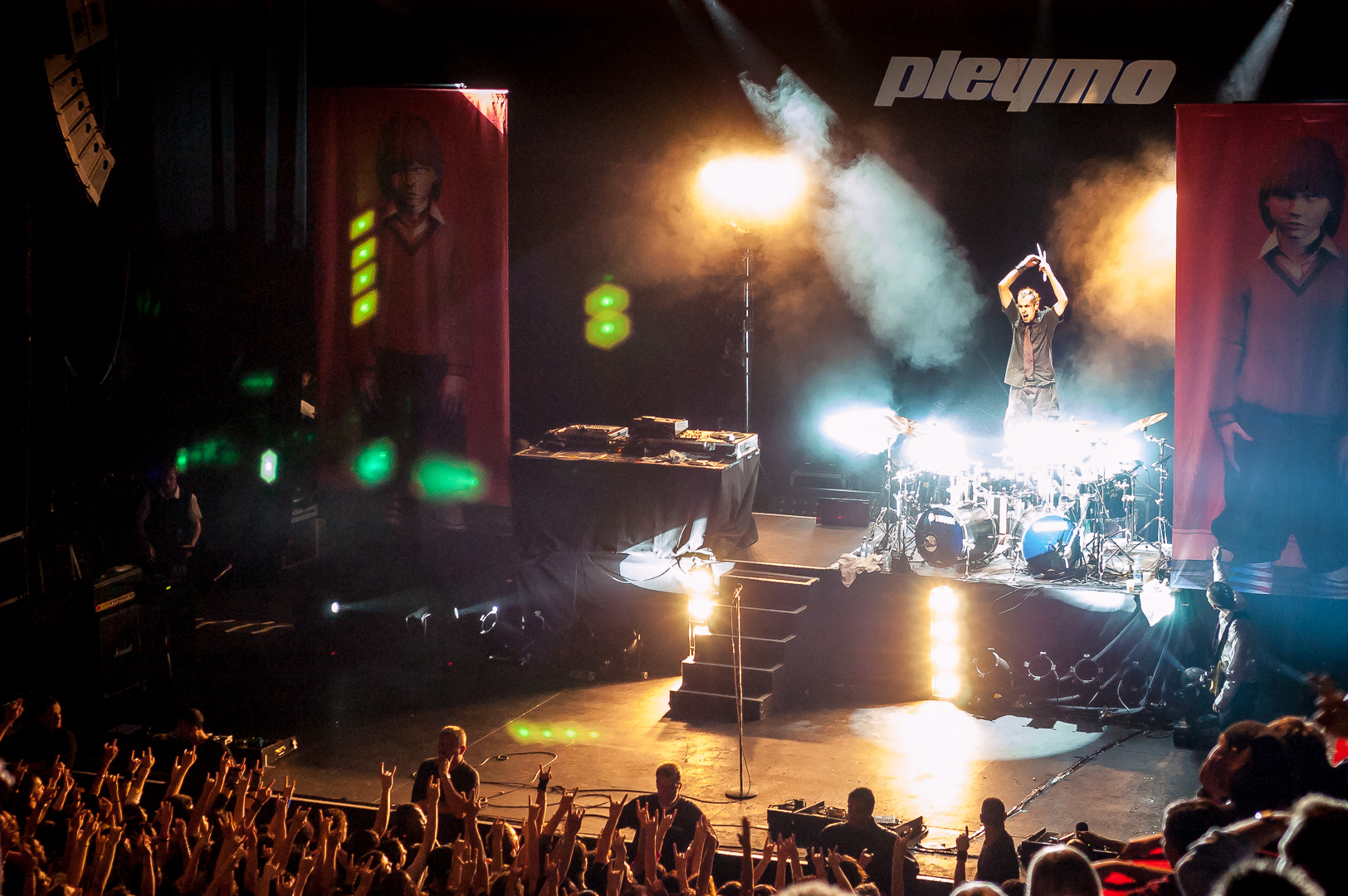 Pleymo Olympia 2004